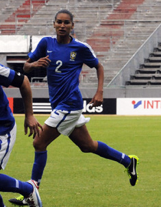 Brazilian footballer Poliana playing against Sweden